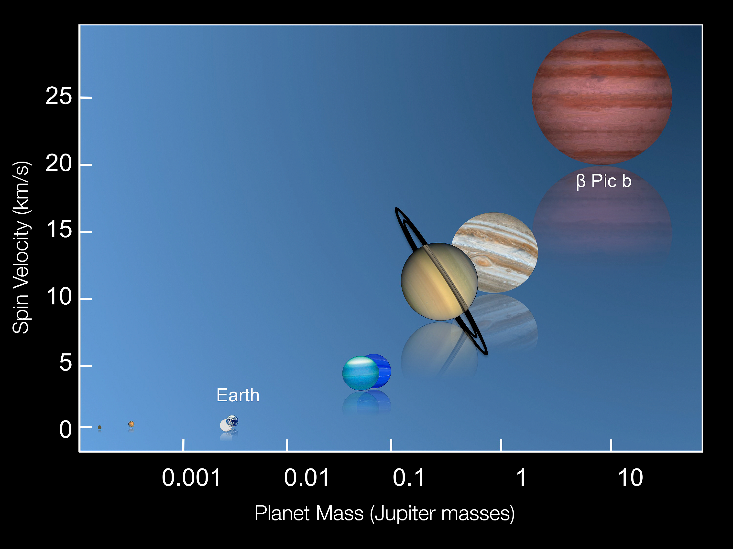 This graphic shows the rotation speeds of several of the planets in the Solar System along with the recently measured spin rate of the planet Beta Pictoris b.